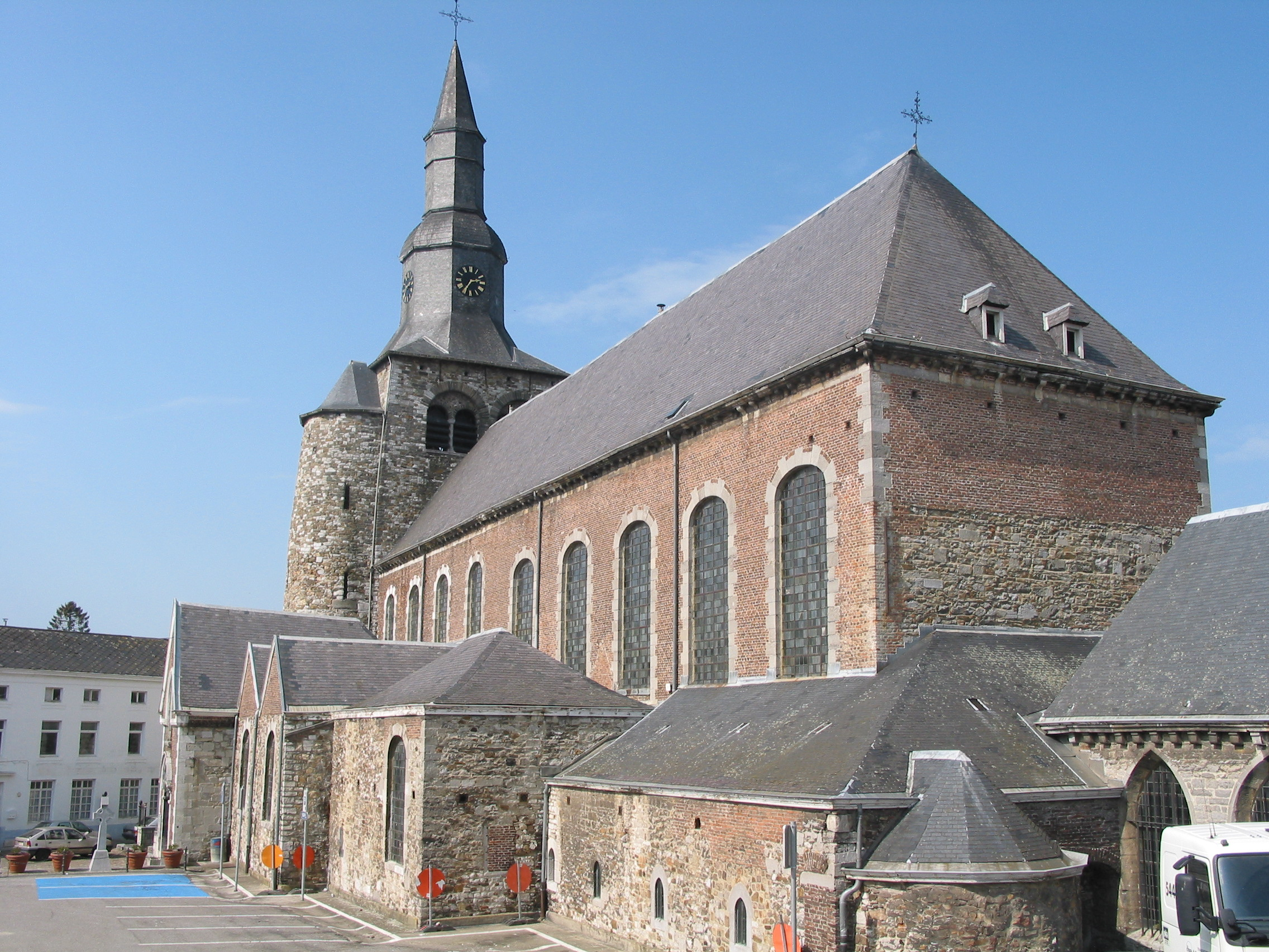 Fosses-la-Ville (Belgium), the collegiate church St. Foillan (romanesque tower).